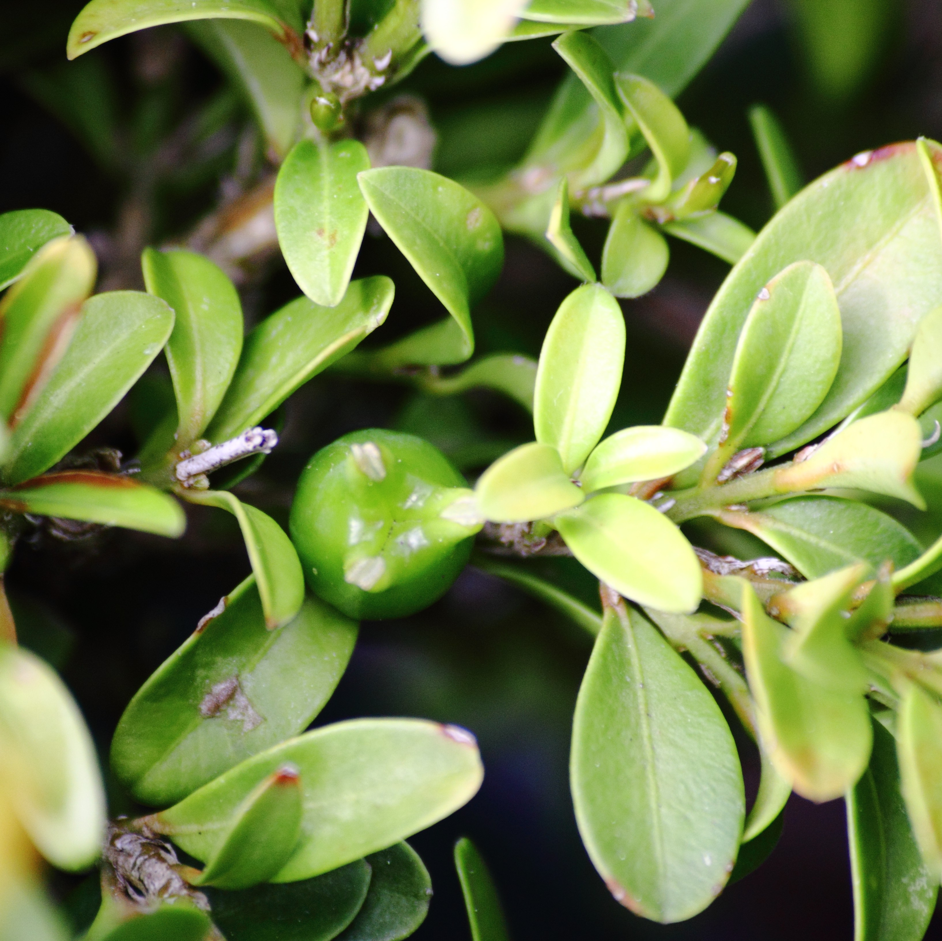 Fruit on a small dwarf boxwood plant (Buxus microphylla ' Hohman's Dwarf')